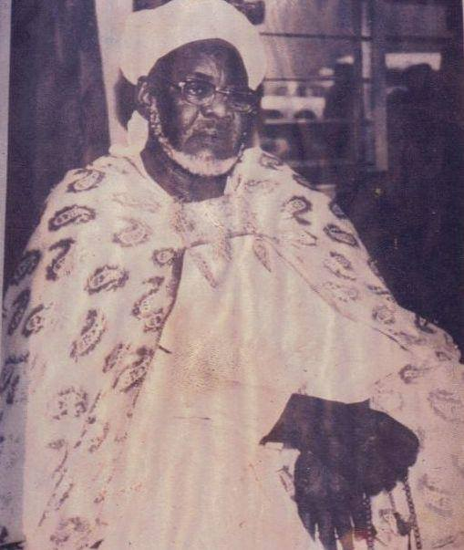 A picture of Cheikh al Hajj Ibrahim Niass